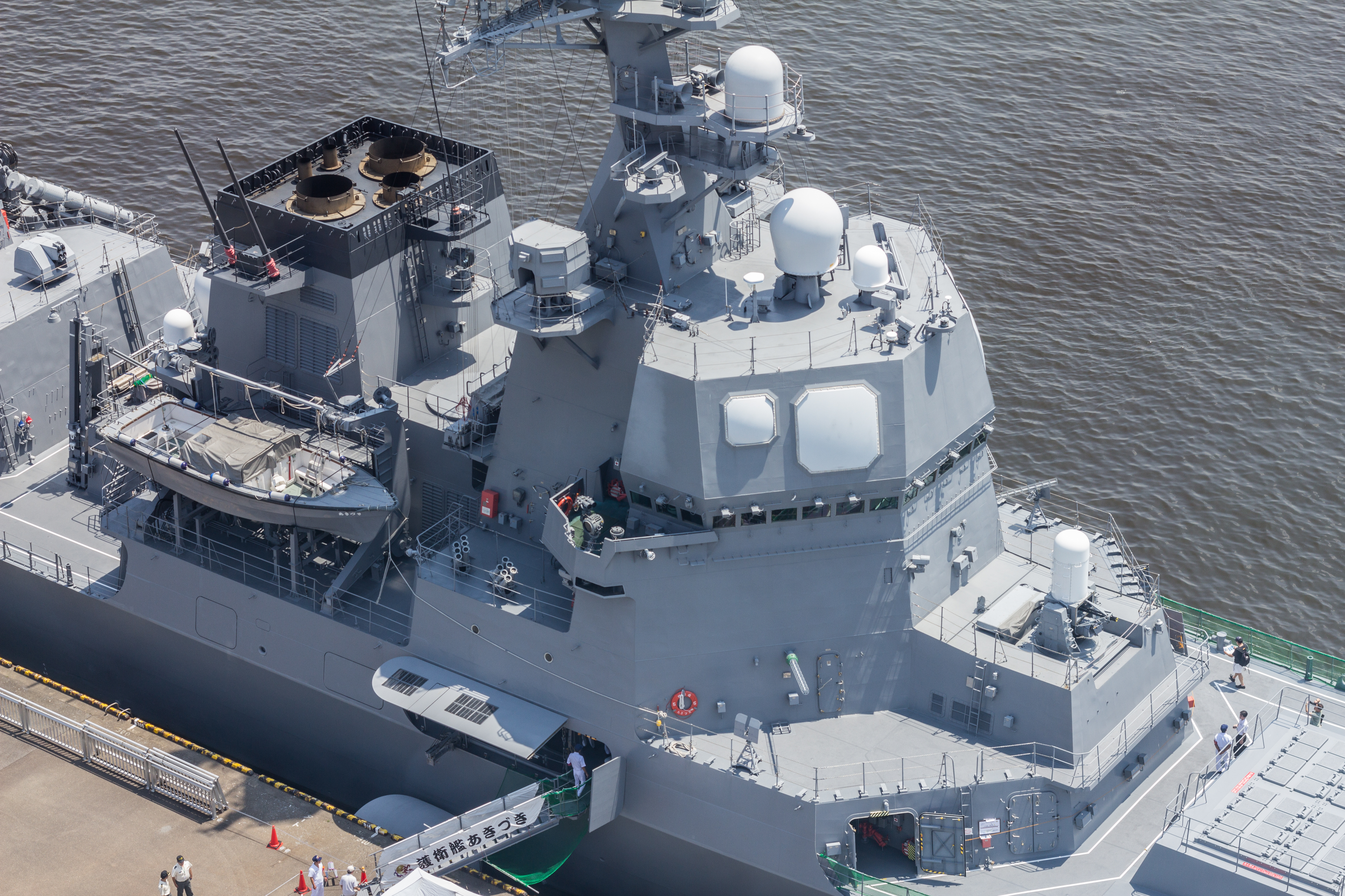 Fore bridge of JDS DD115 Akizuki at Nagoya (2013 August 4th)